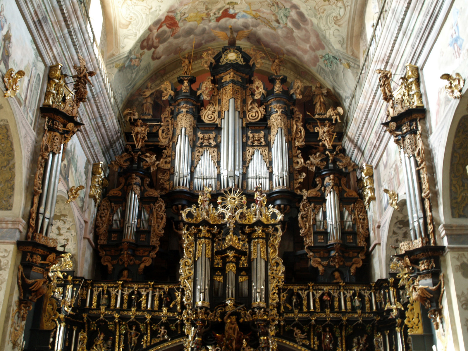 Organs in Basilica of St. Mary in Leżajsk